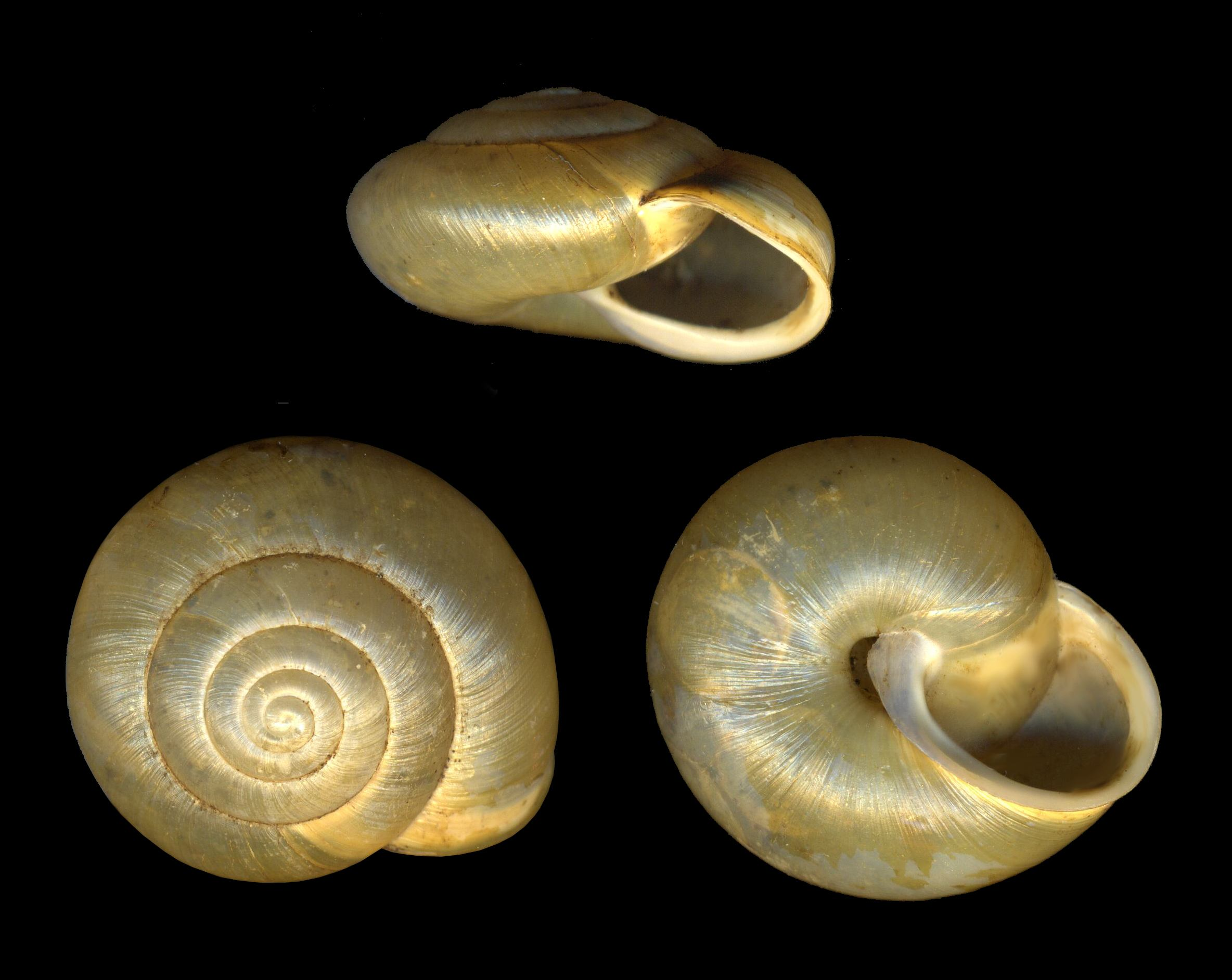 The polygyrid land snail Mesodon clenchi, 21 mm in diameter (abt 13/16 inch), from Cherokee County, Oklahoma, USA; 1962.